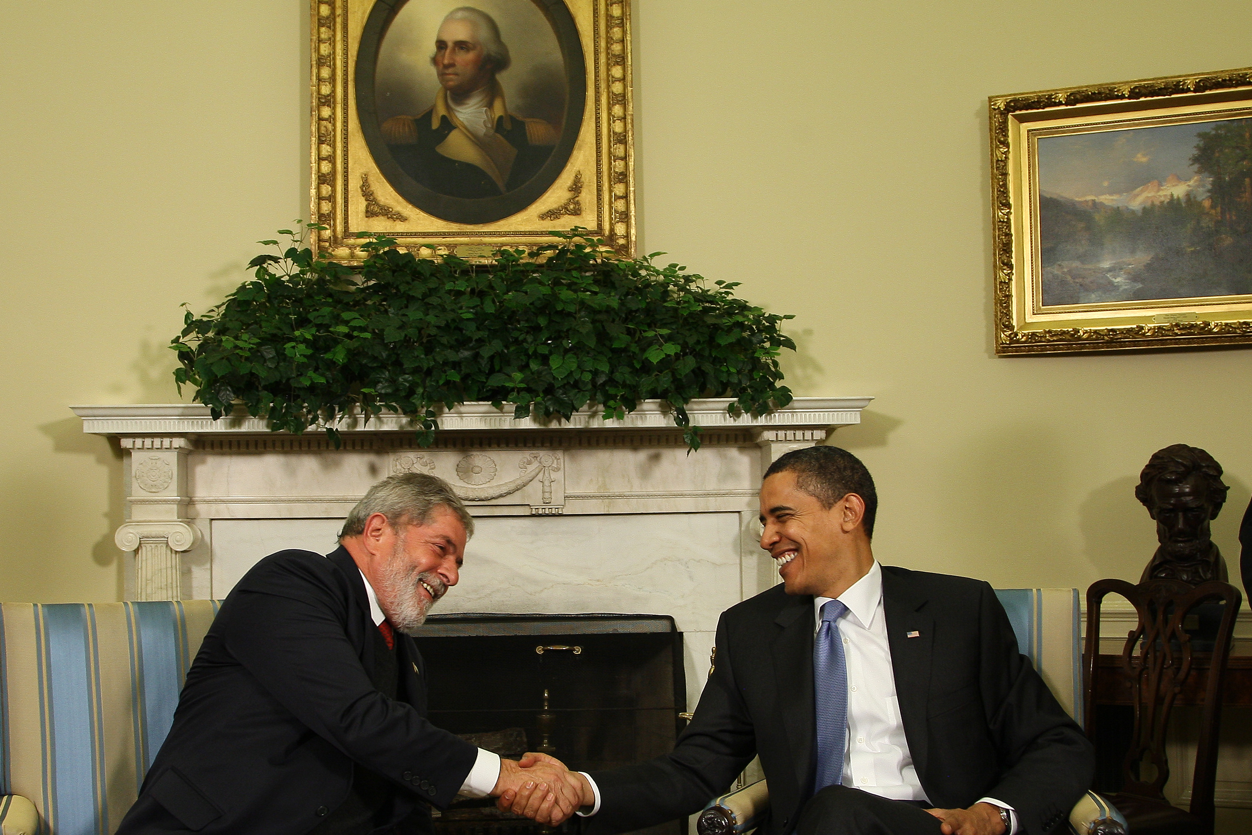 Barack Obama and Luiz Inácio Lula da Silva